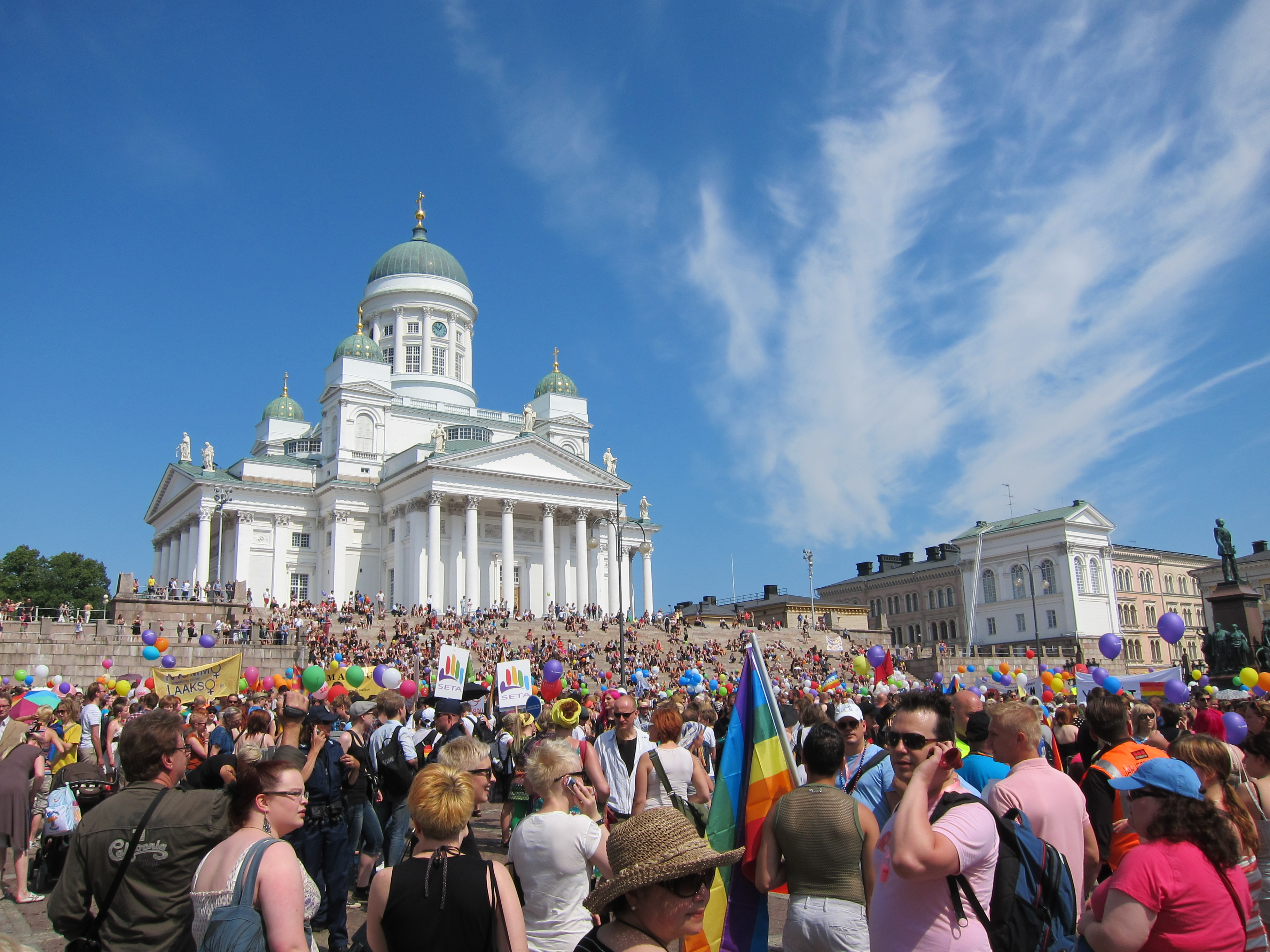 People gathering at Senaatintori before the parade started.